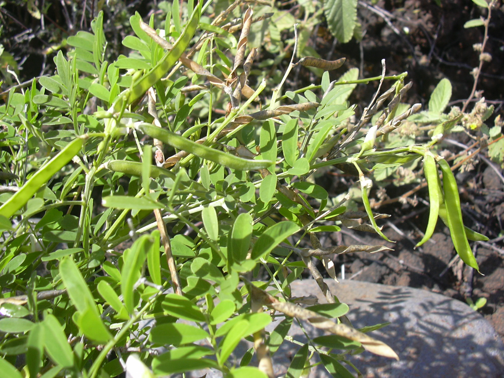 Tephrosia purpurea var. purpurea (seed pods). Location: Maui, LaPerouse